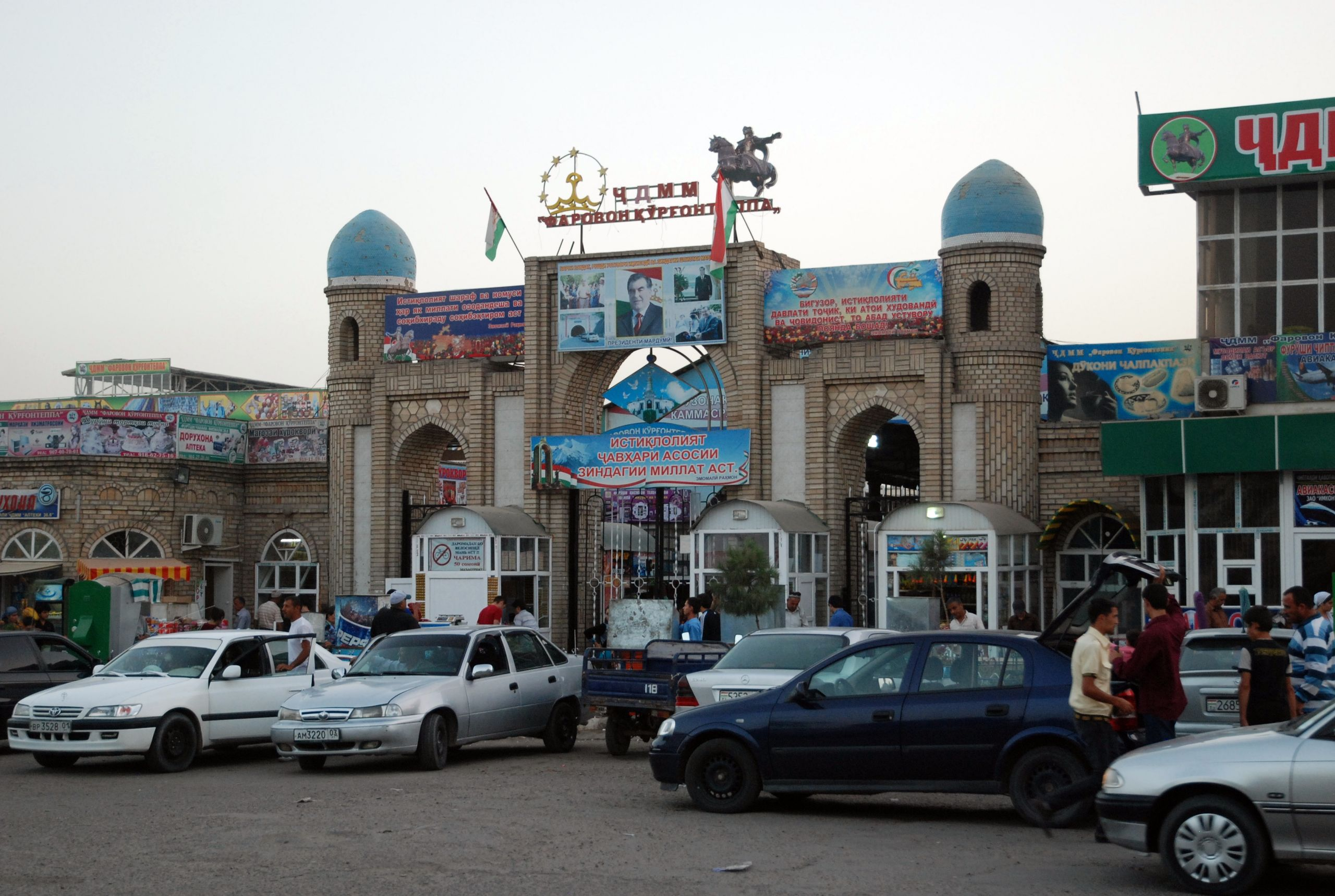 Qurghonteppa, entrance to market